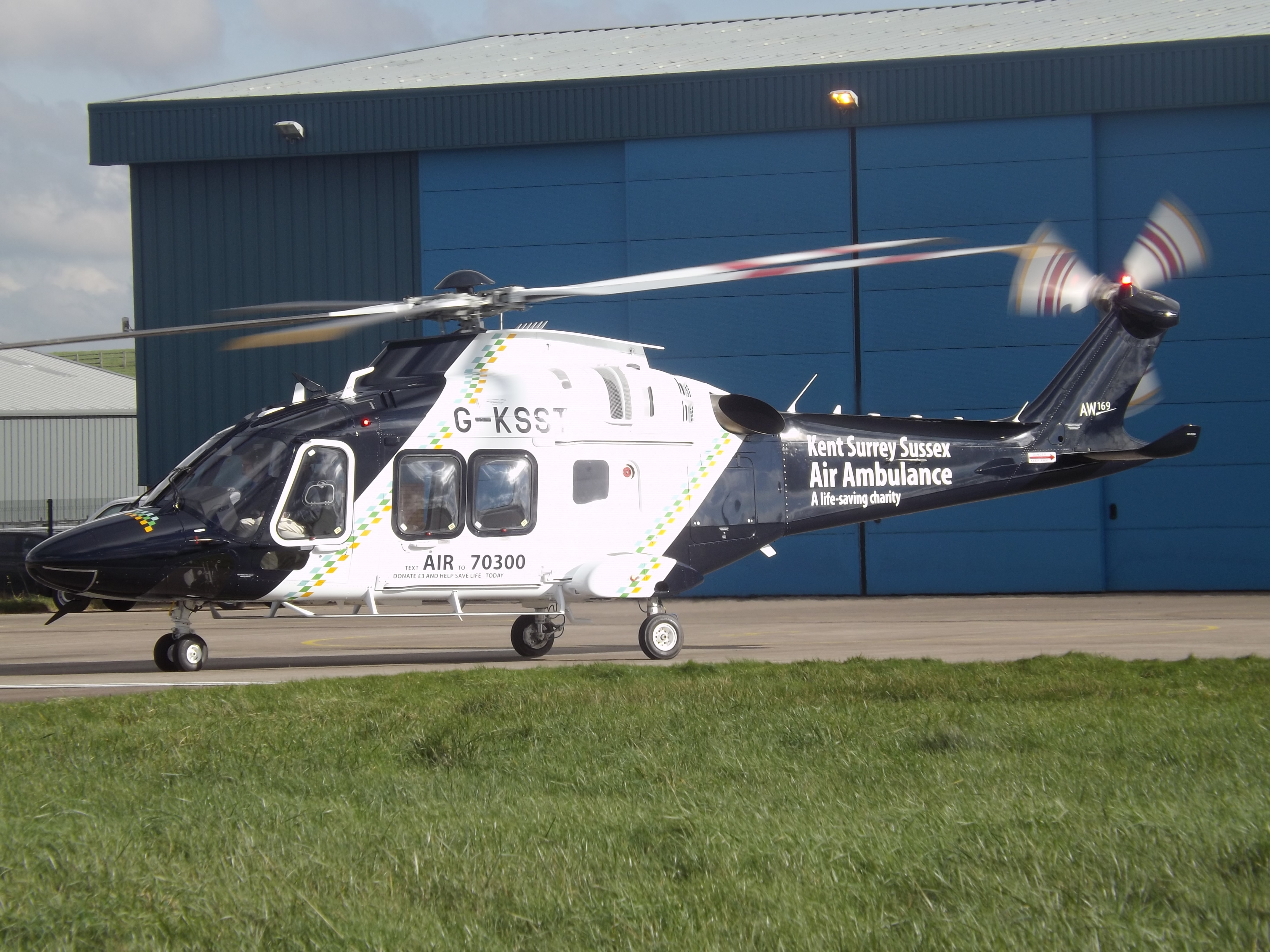 At Gloucestershire Airport.